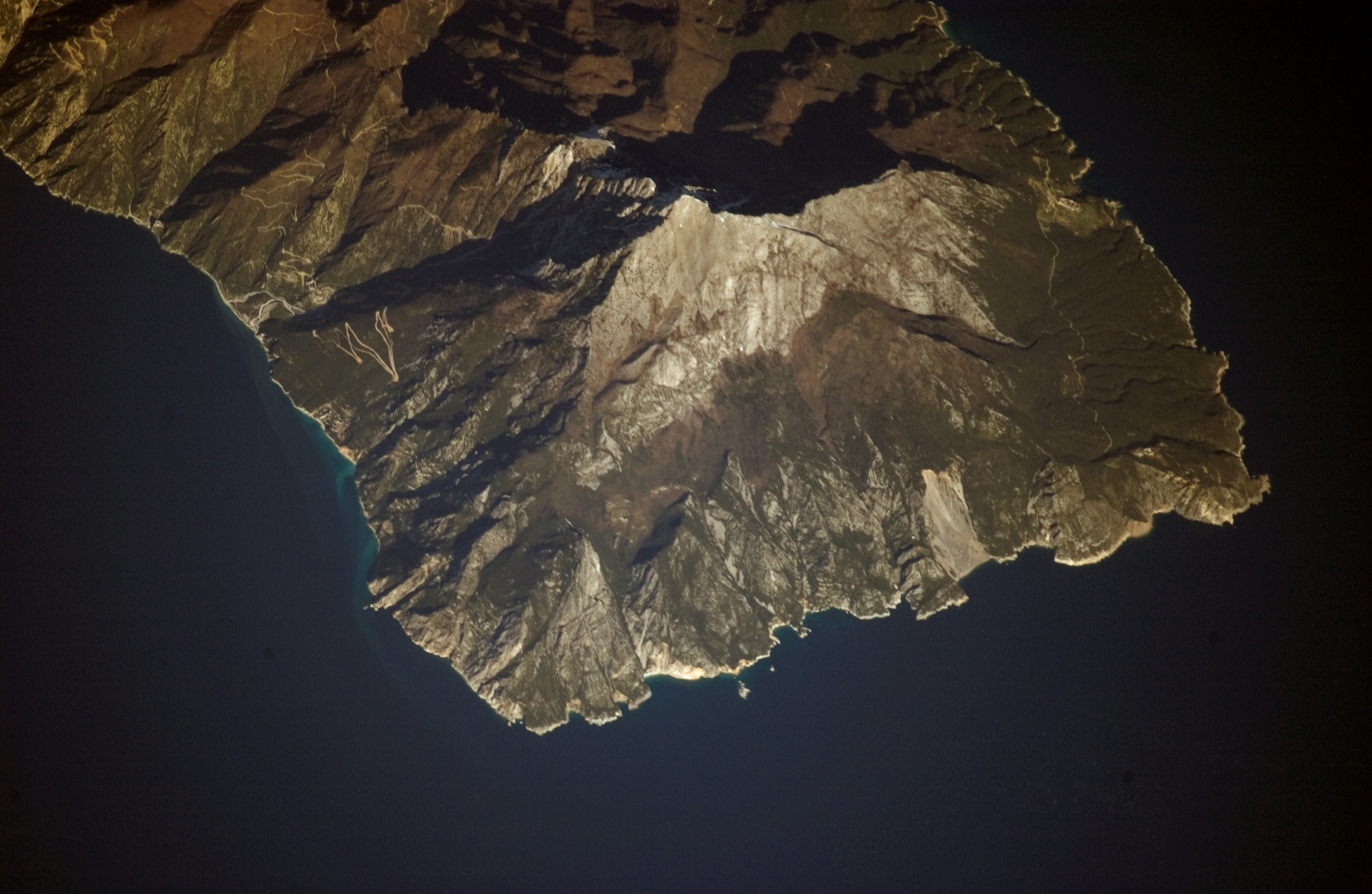 NASA astronaut image of Mount Athos, Greece